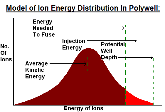 This is a model of the ion energy distribution in a IEC device. It is taken from "A general critique of inertial-electrostatic confinement fusion systems" Rider, 1995 Physics of Plasmas 2 (6): 1853. This model assumes a maxwellian ion population, which is broken into several different sub-groups. First, the ions which do not have enough energy to fuse. Second, the ions at the injection energy. Third, the ions that have so much kinetic energy that they escape the potential well. Supporters have argued that the plasma is non-thermal. Other information This is a model of the ion energy distribution in a IEC device. It is taken from "A general critique of inertial-electrostatic confinement fusion systems" Rider, 1995 Physics of Plasmas 2 (6): 1853. This model assumes a maxwellian ion population, which is broken into several different sub-groups. First, the ions which do not have enough energy to fuse. Second, the ions at the injection energy. Third, the ions that have so much kinetic energy that they escape the potential well. Supporters have argued that the plasma is non-thermal.